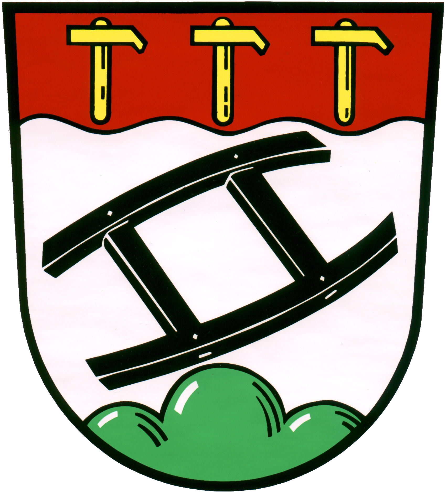 Coat of Arms of Maroldsweisach